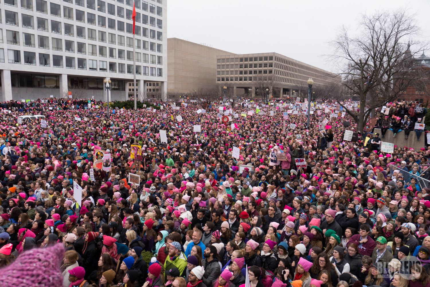 Trump-WomensMarch_2017-1510069